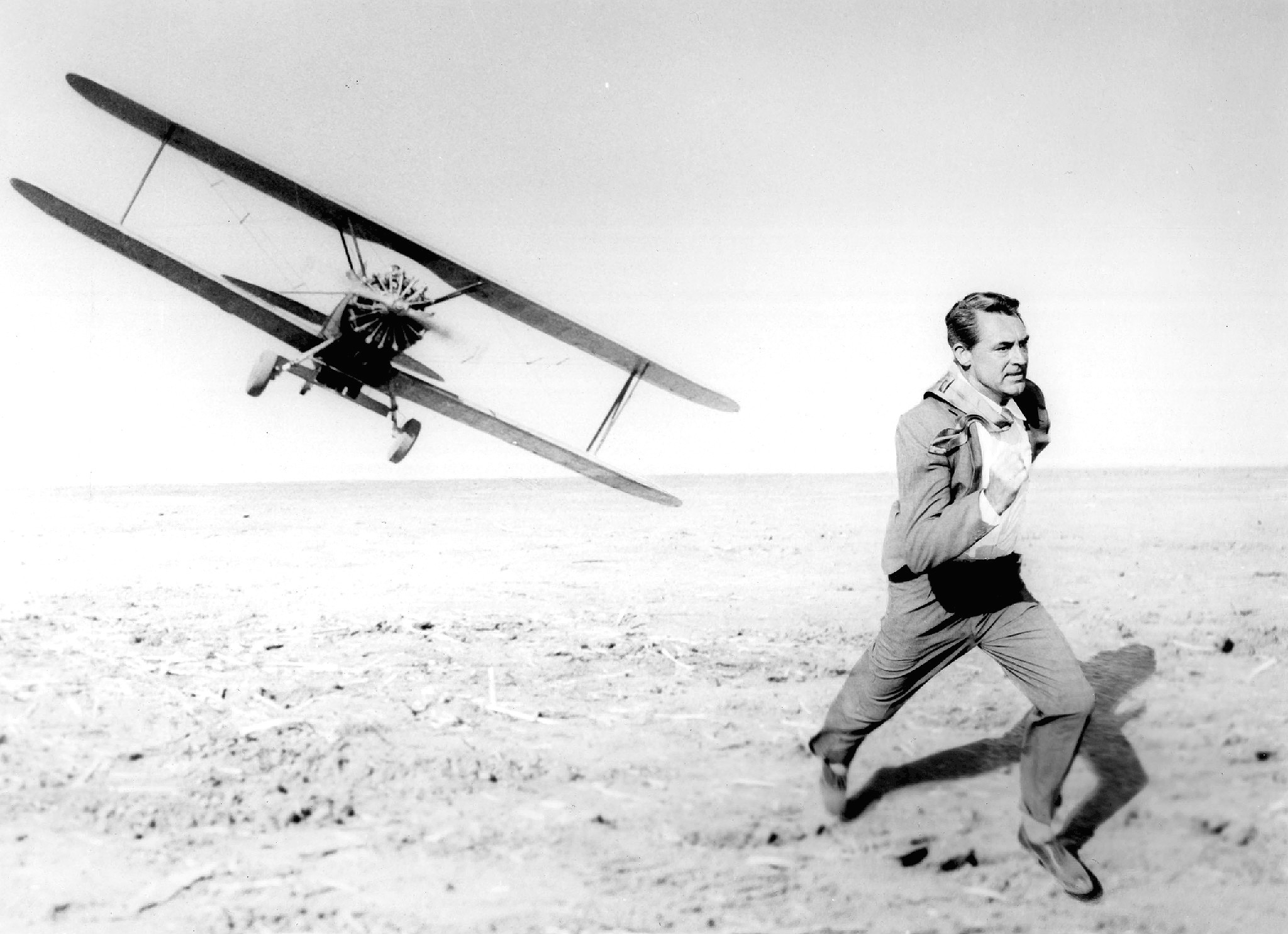 Photo of Cary Grant from the film North by Northwest from the trade magazine Motion Picture Daily. Note that the uploaded photo is larger and of better quality than the magazine photo. A renewal search was done at for the title "Motion Picture Daily". There were no listings for the title. There's no evidence of continuing copyright for the magazine.